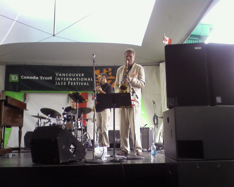 John Doheny (saxophone) at the Vancouver Jazz Festival '07